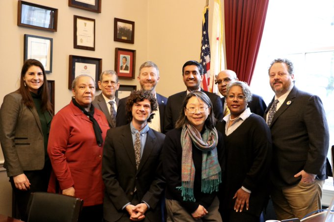 Got to sit down this morning with local IFPTE labor reps to discuss how important today’s passage of the #PROAct is to workers across this country. We have to end the so-called right to work laws that are exacerbating economic inequality.